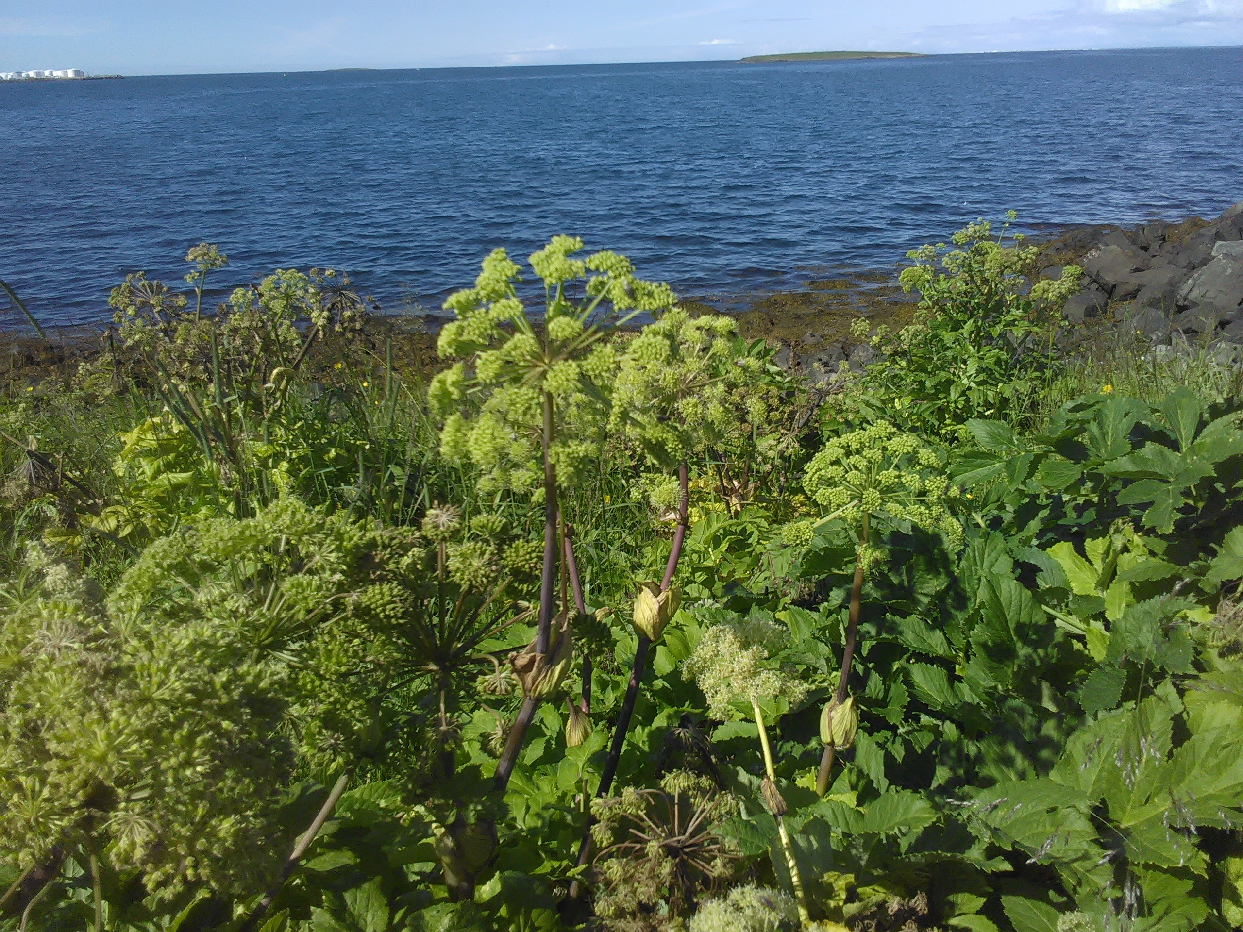 Reykjavík, Iceland - Aug. 2018